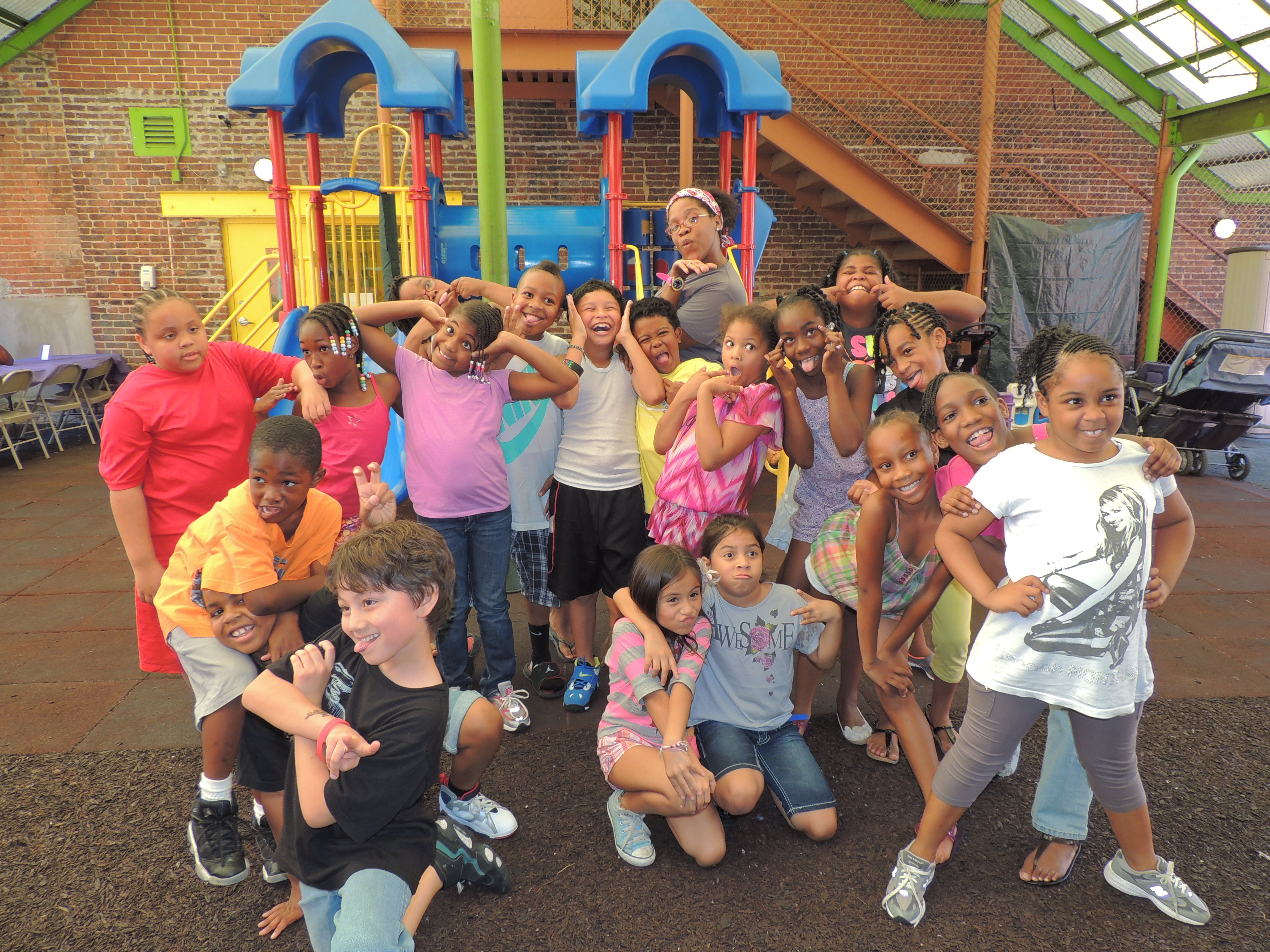 Children's Program